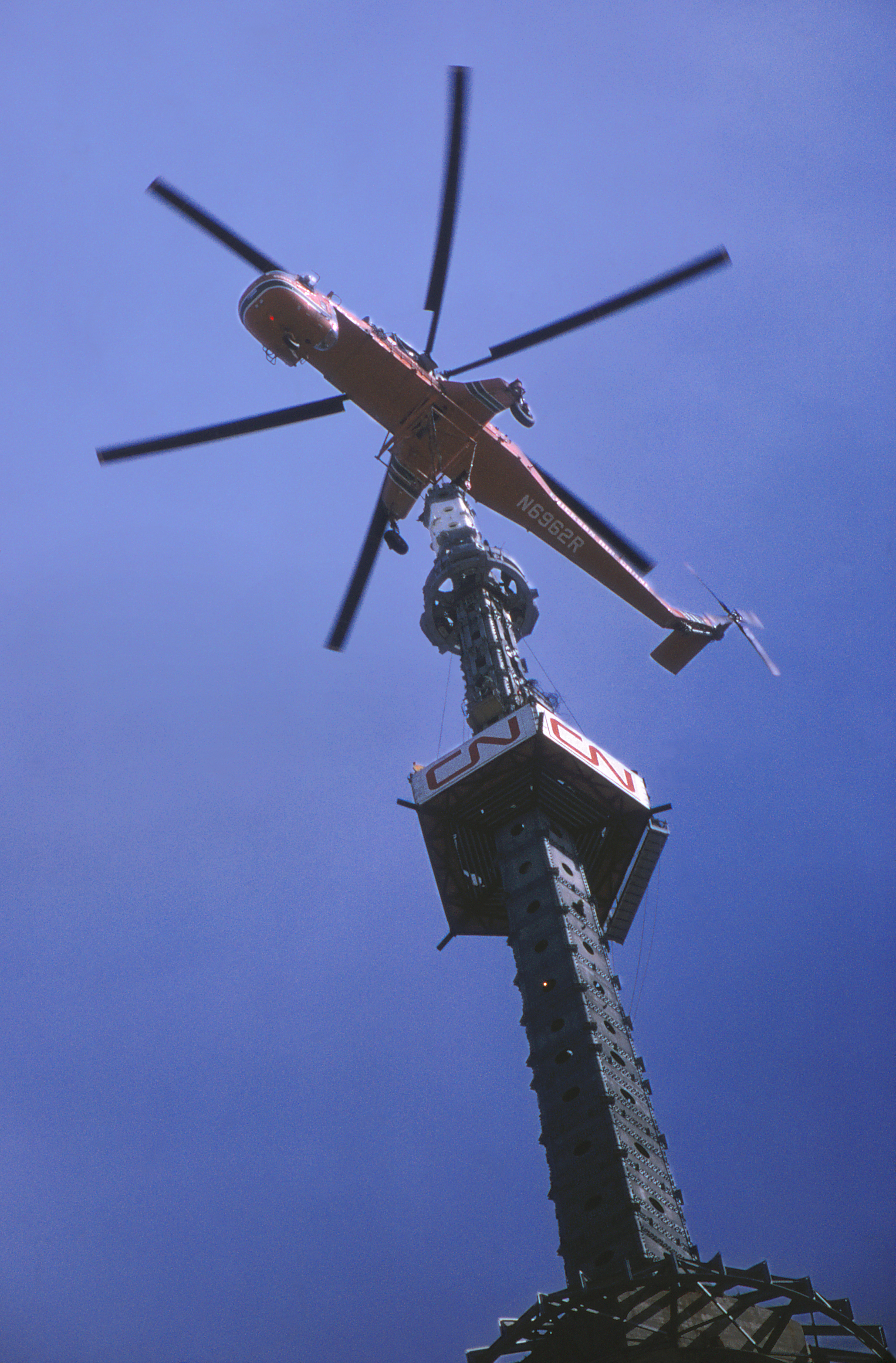 Sikorsky S-64 Skycrane helicopter "Olga" placing a segment of upper section of Toronto's CN Tower during construction, March 1975. (Digitized from original Kodachrome.)